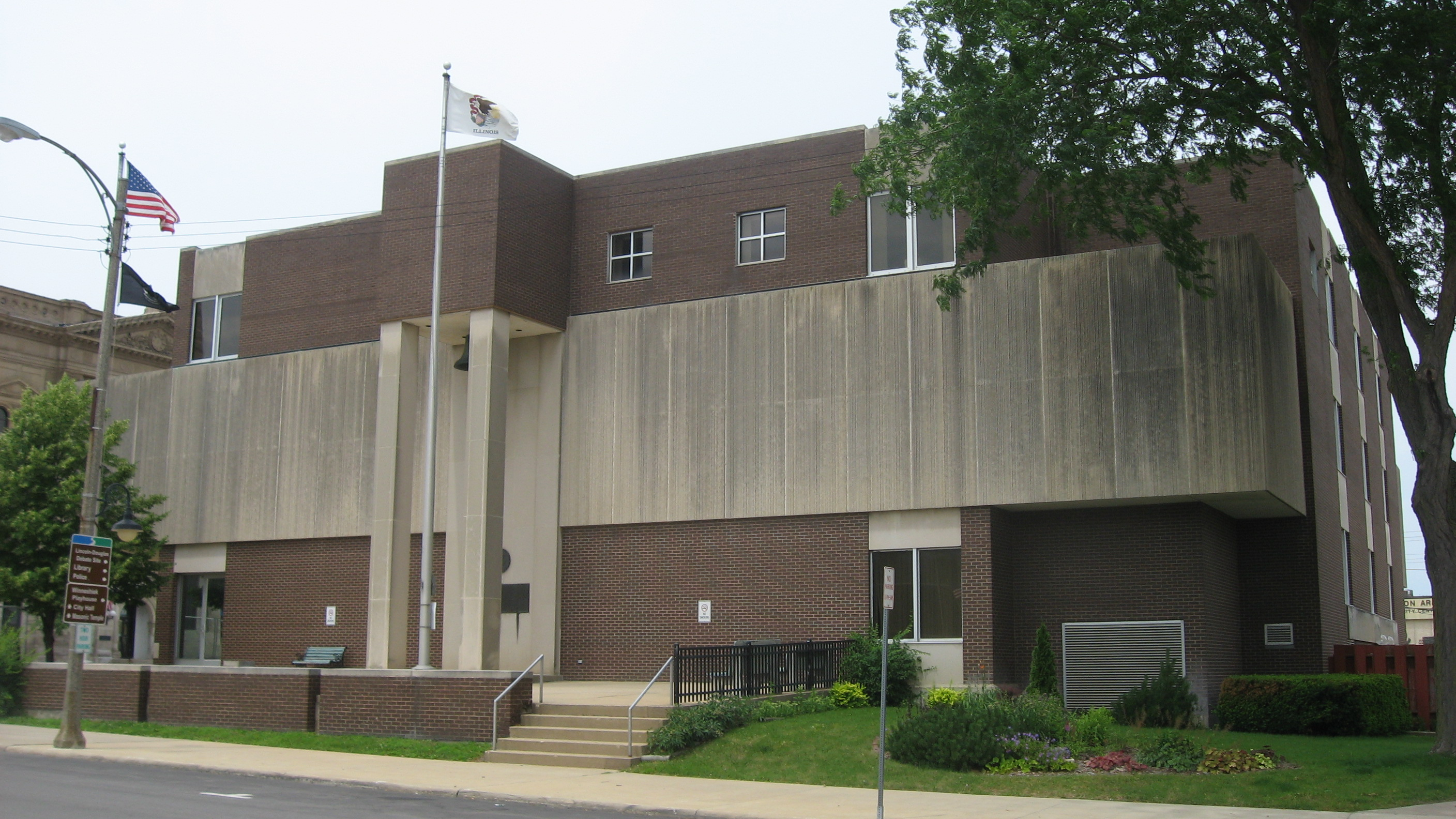 Front of the Stephenson County Courthouse, located in the block bounded by Stephenson Street, Van Buren Avenue, Exchange Street, and Galena Avenue in Freeport, Illinois, United States. Built in 1974, it replaced an earlier courthouse that was listed on the National Register of Historic Places in the same year, and although destroyed more than forty years ago, it has not yet been removed from the Register.